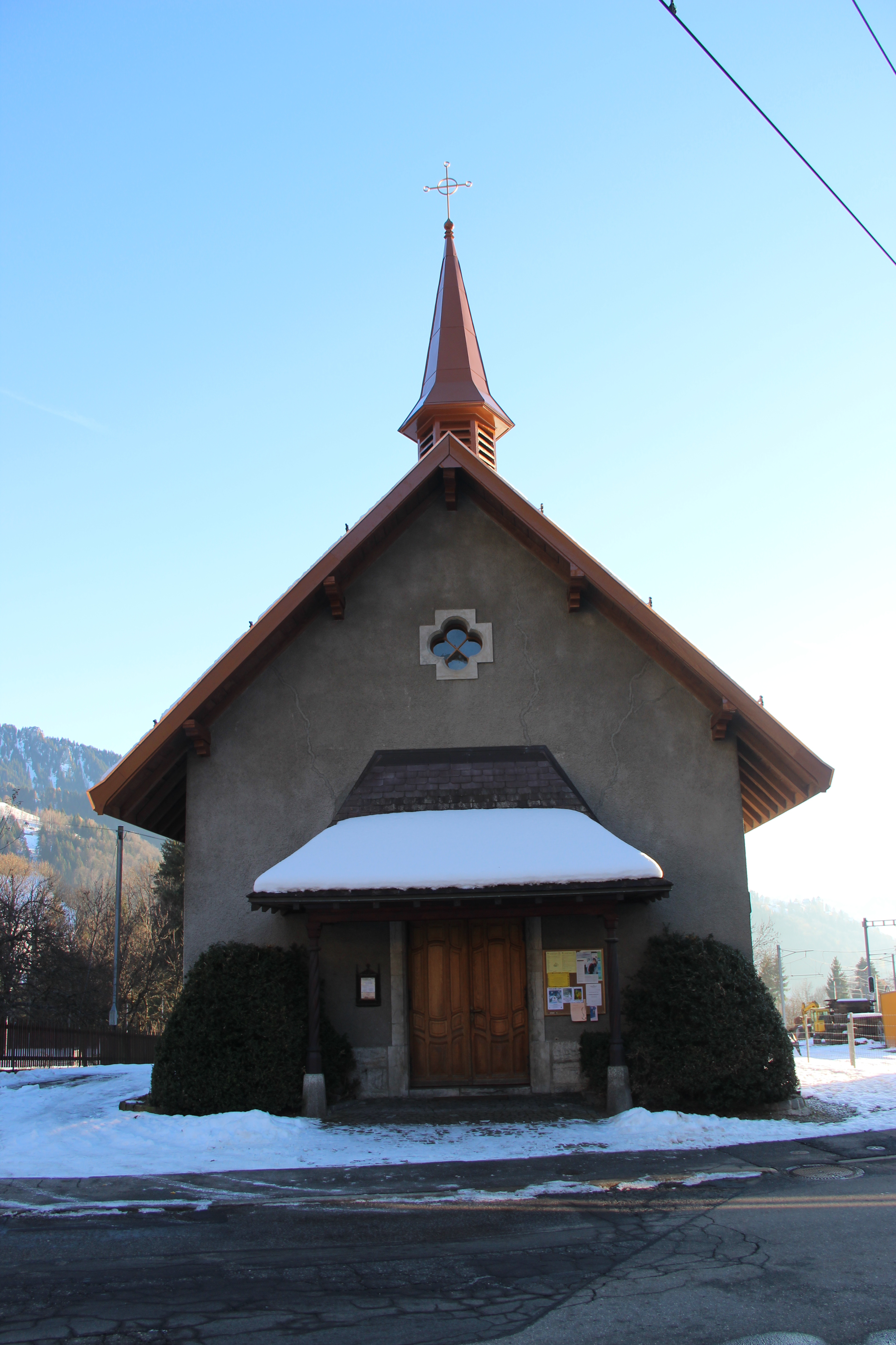 Church of Les Avants